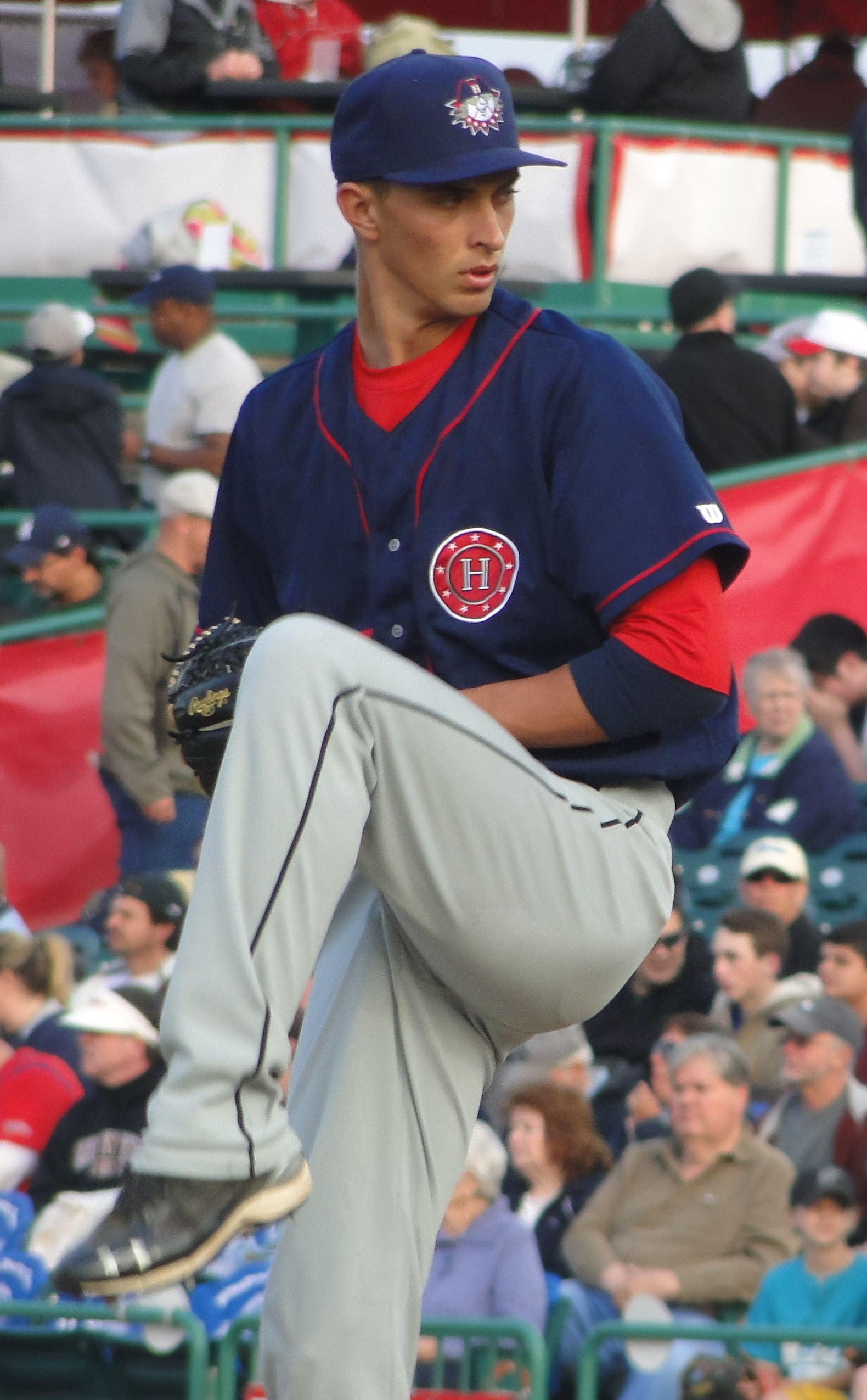 A. J. Cole